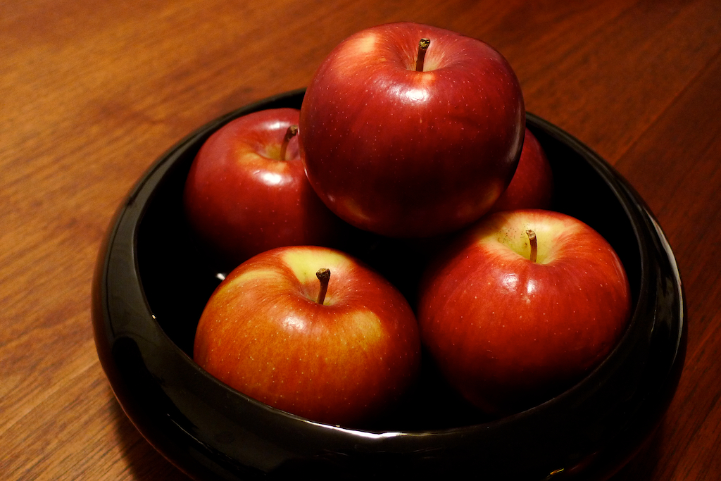 Crisp, Full-flavor, Sweet The variety came from a cross between the varieties McIntosh and Red delicious.